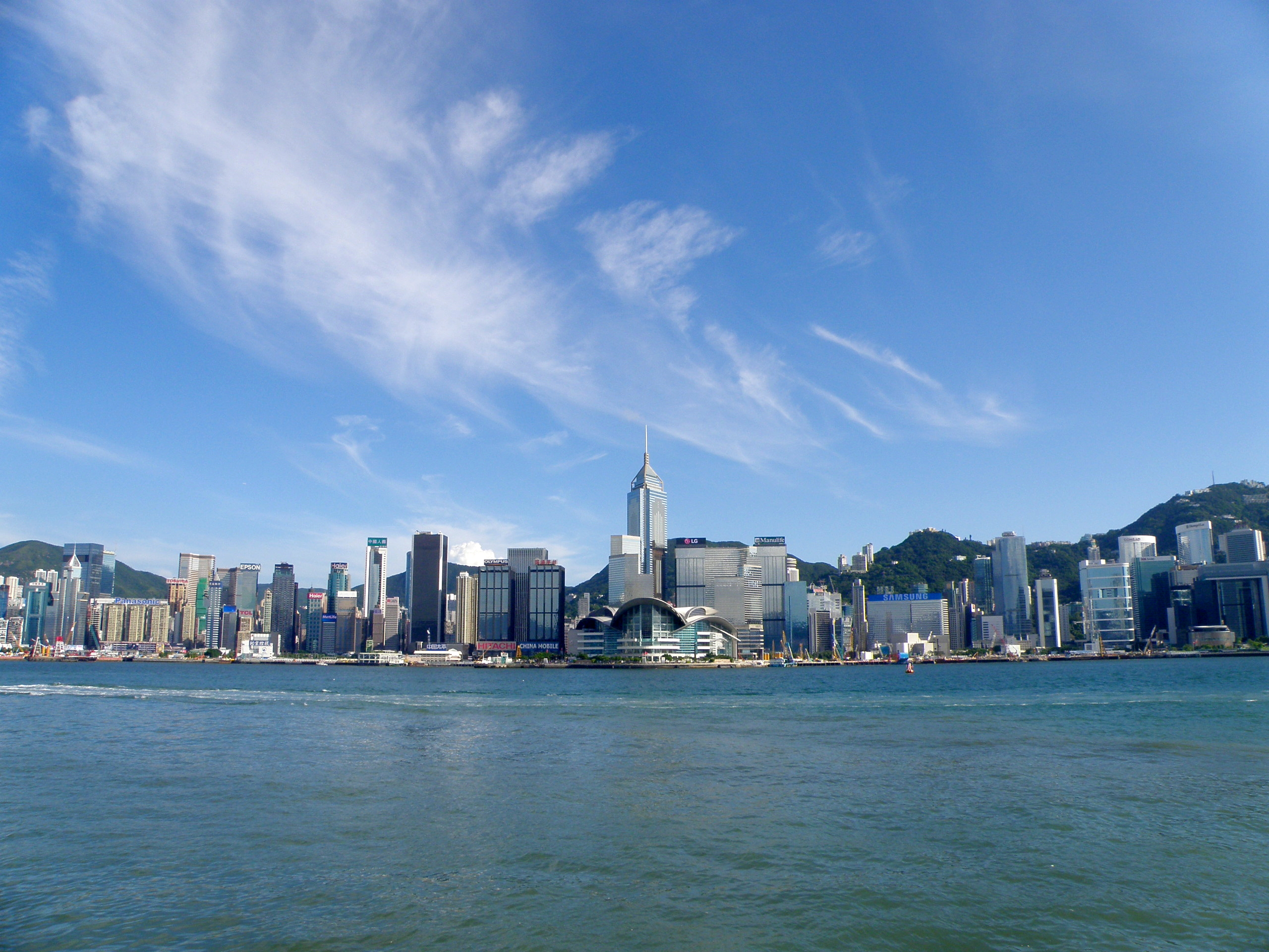 Wan Chai in Hong Kong Island, Hong Kong.